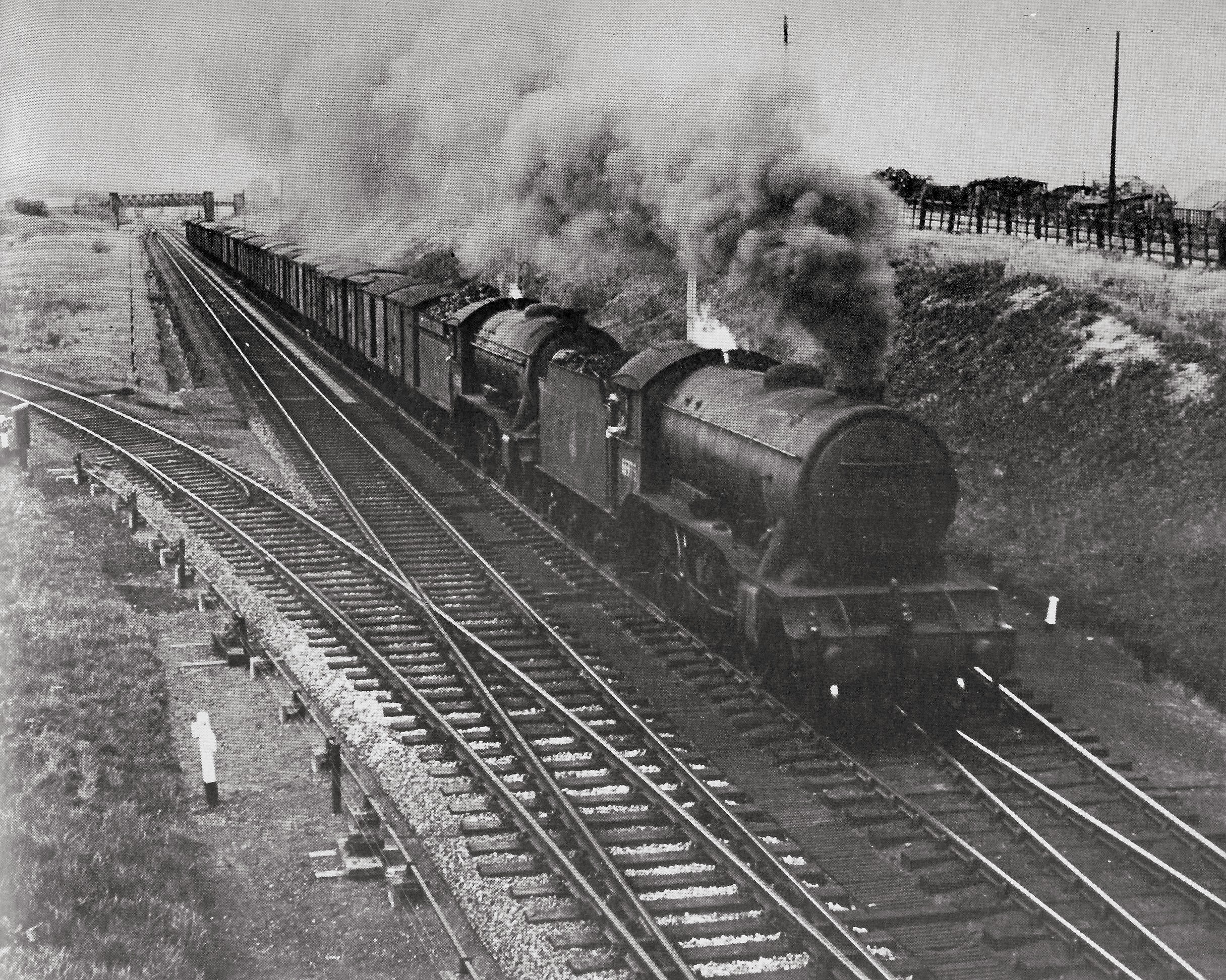 A shot taken by my late Uncle Ken , however worthy of posting as it shows the Great Central Railway at Arkwright which has now been completely swept away. This wonderful shot shows a train travelling south at Arkwright South Junction.